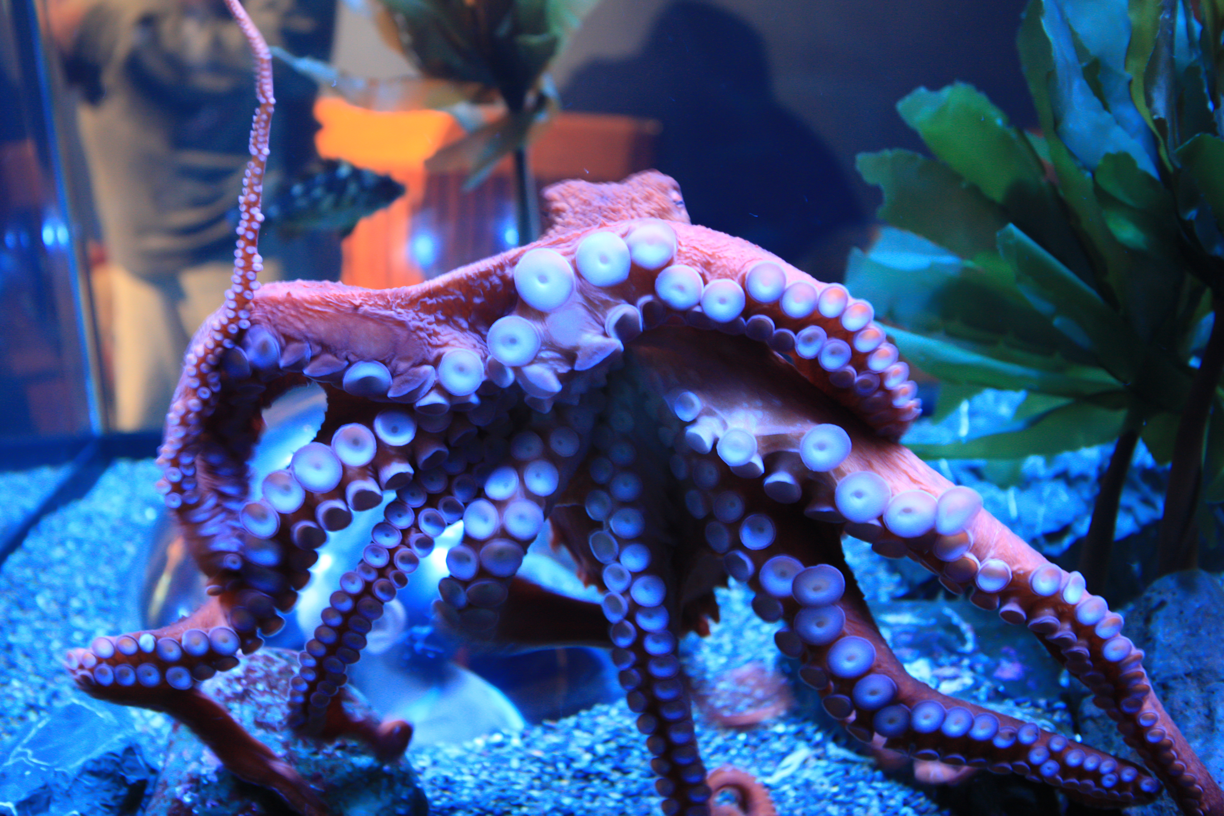 Enteroctopus dofleini (Wülker, 1910) - When threatened, Giant Pacific Octopus shoot out an inky substance that creates an instant smokescreen. Sometimes the ink cloud takes the actual shape of an octopus, providing a diversion that allows the real octopus to escape from predators. With no skeleton to get in its way, Giant Pacific Octopuses can also squeeze their bodies into incredibly small spaces – any space larger than its powerful beak is fair game. Giant Pacific Octopuses are terminal spawners, meaning females only have one opportunity to reproduce. They typically mate closer to the end of their fairly short lifespan, which on average is only five years. Luckily, octopuses lay anywhere from 18,000 – 74,000 eggs, helping to strengthen the vitality of the species. While waiting for her eggs to hatch, the mother remains with the eggs and does not eat, staying to protect her babies at all times. Octopuses typically die shortly after her babies hatch. The animal dines on a wide range of seafood including clams and other mussels, but have a particular hankering for crabs. With their love for crabs, coupled with a sweet spot for den-like enclosures, octopuses often mistake crabber’s nets as hunting and hiding ground, where they can be accidentally caught. If the octopus kills and eats the crabber’s catch, many fishermen respond by killing the octopus.